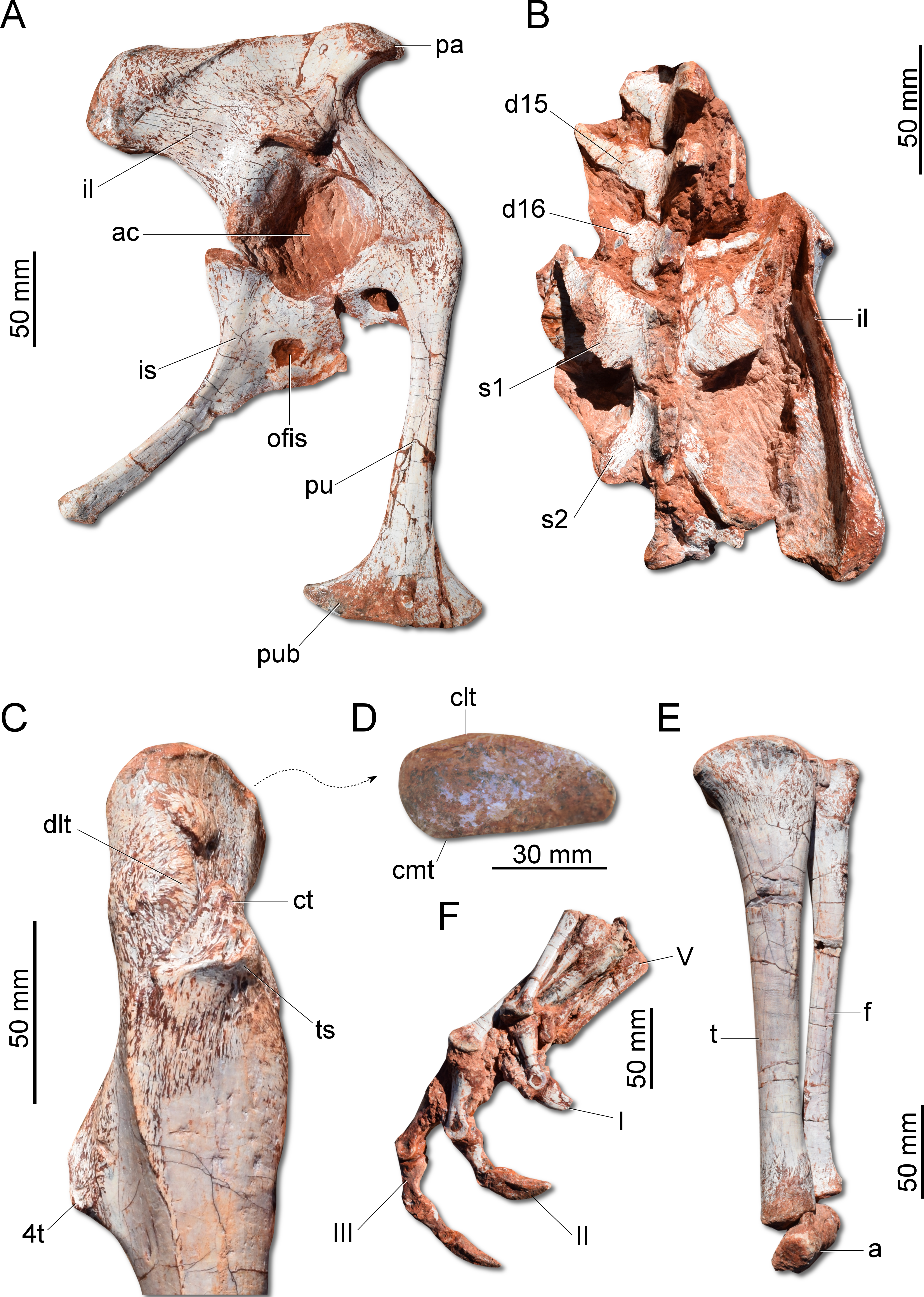 Figure 7: Photographs of the pelvic girdle and hindlimb of CAPPA/UFSM 0009. (A) Right pelvic girdle in lateral view. (B) Sacrum in dorsal view. (C) Proximal portion of the right femur in lateral view. (D) Right femur in proximal view. (E) Left zeugopodium in medial view. (F) Right pes in medial view. 4t, fourth trochanter; a, astragalus; ac, acetabulum; clt, craniolateral tuber; cmt, craniomedial tuber; ct, cranial trochanter; d15, d16, dorsal vertebra 15 and 16; dlt, dorsolateral trochanter; f, fibula; I, II, III, digits I to III; il, ilium; is, ischium; ofis, obturator foramen of the ischium; pa, preacetabular process; pu, pubis; pub, pubic boot; s1, s2, first and second sacral vertebrae; t, tibia; ts, trochanteric shelf; V, digit V.